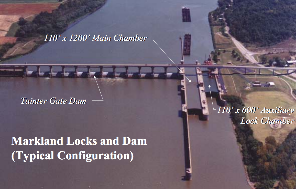 Merkland lock and dam